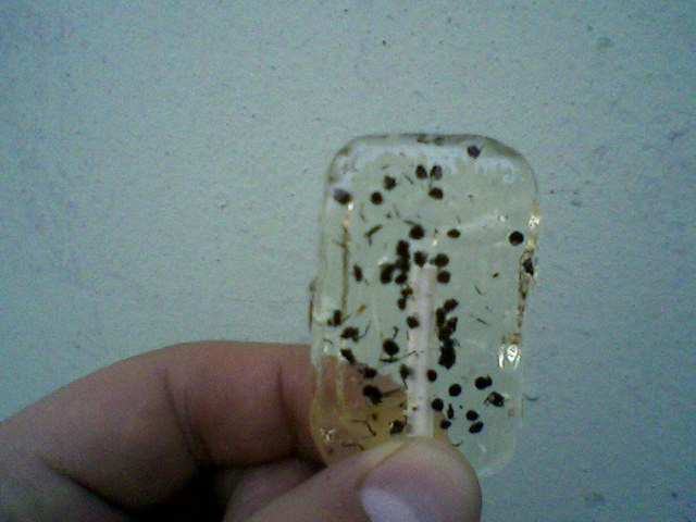 lollipop with ants grown on the special farm